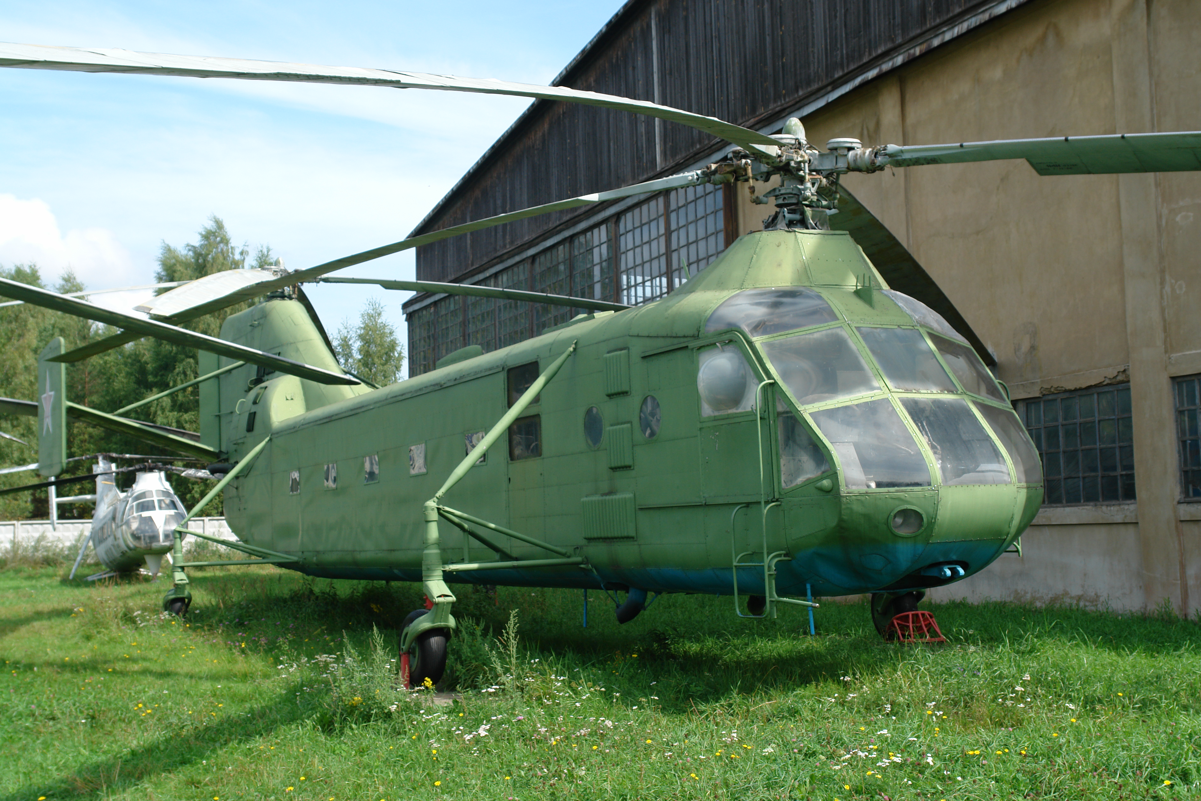 Yakowlew Yak-24 (Horse) at Monino Central Air Force Museum (Moscow).